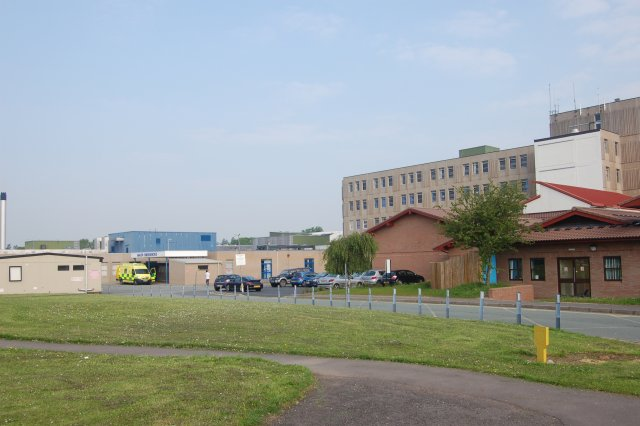 Royal Shrewsbury Hospital from Car Park